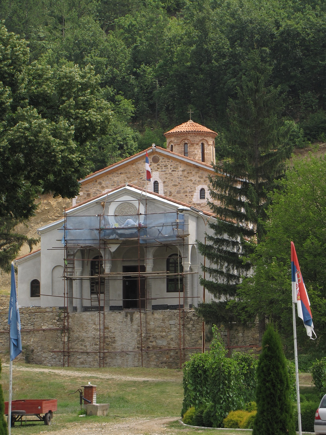 Monastery Sukovo